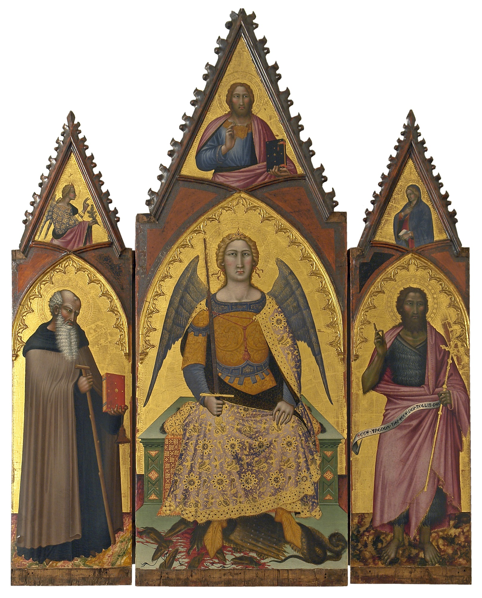 Angelo Puccinelli, Triptych of St. Michael, 1370-80, 182 x 154 cm, Siena, Pinacoteca Nazionale.